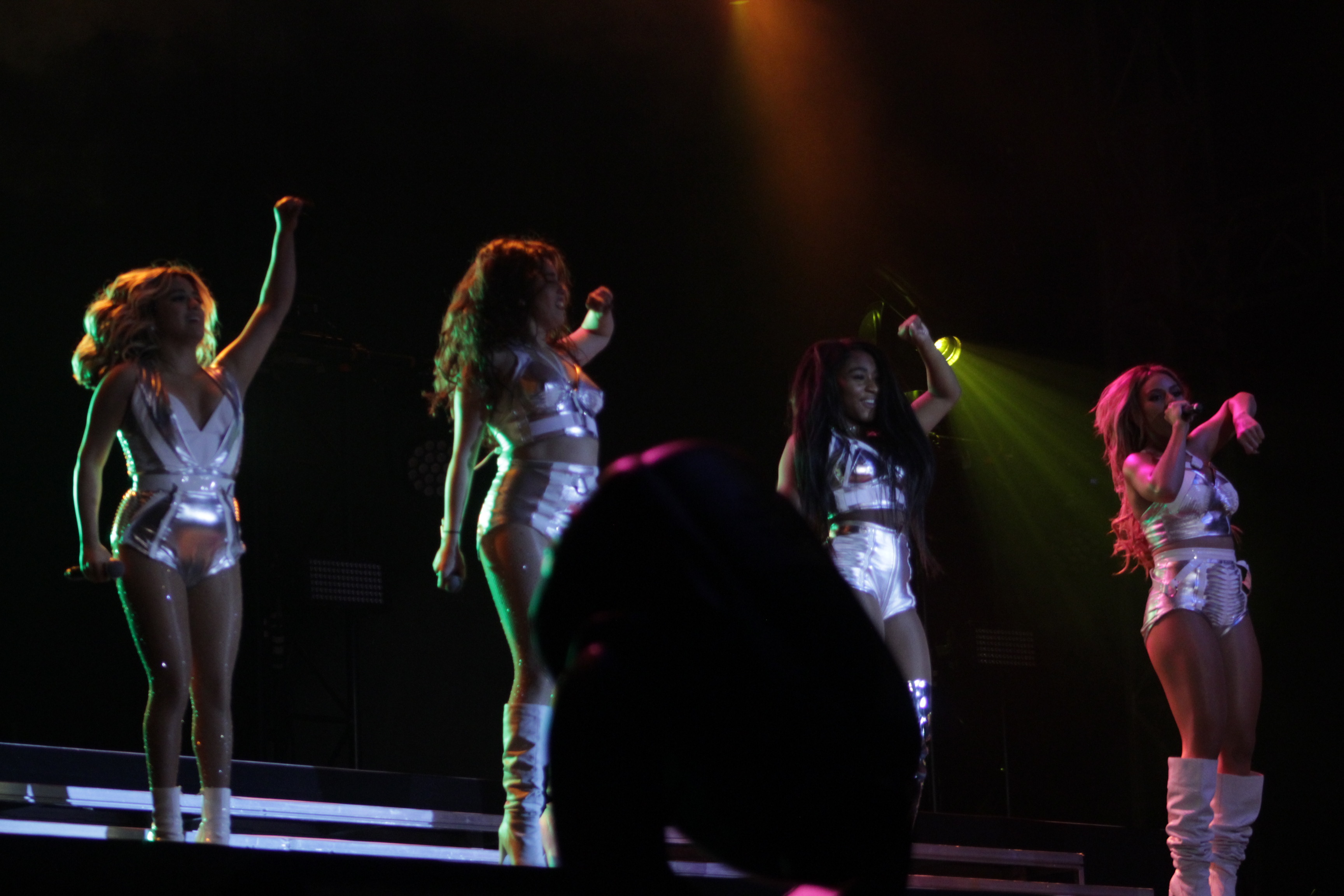 Fifth Harmony (Lauren Jauregui, Normani Kordei, Dinah Jane Hansen, Ally Brooke Hernandez) perform at the Los Angeles County Fair in Pomona, Ca. on Sep. 15, 2017. Taken by Dominique Redfearn